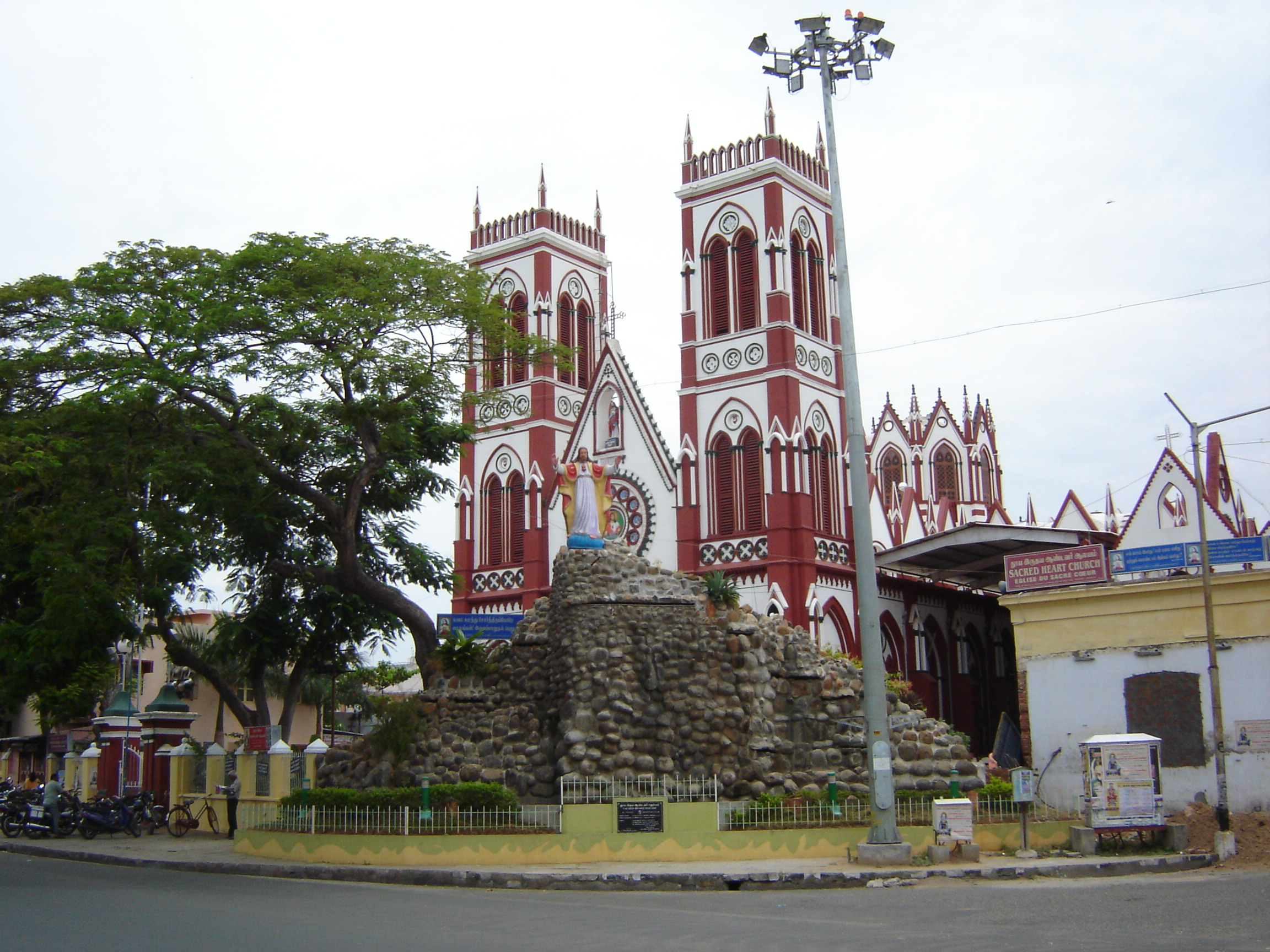 Sacred Heart church, Puducherry, India